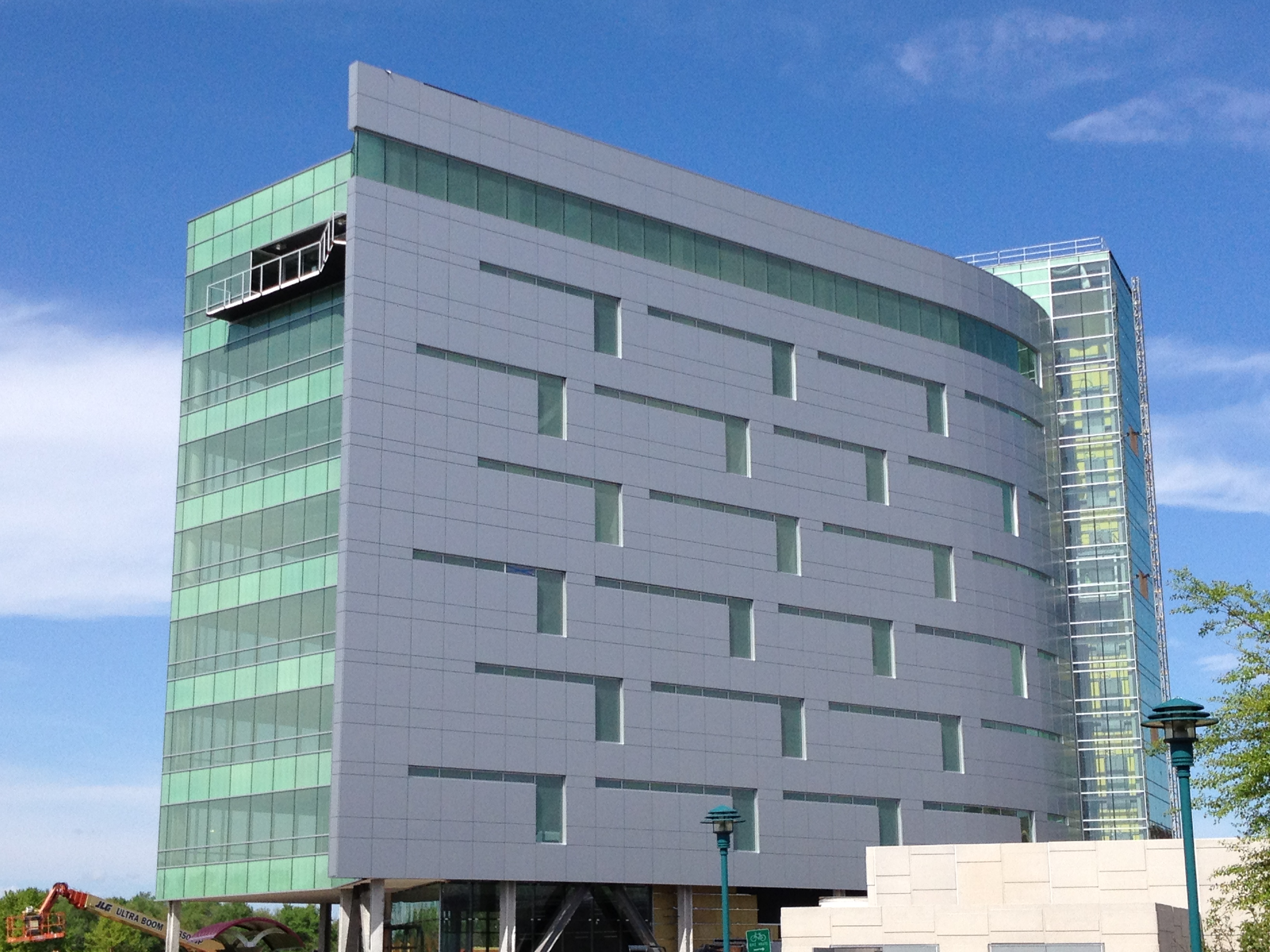 The new Kone Building in Moline. The glass was manufactured and coated with a SunGuard coating just north of the Quad Cities in De Witt, IA by Guardian Industries